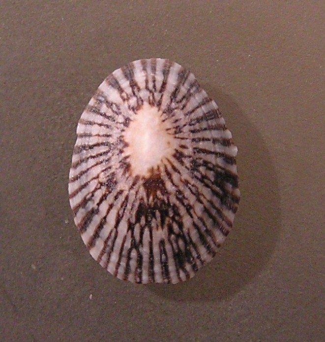 Lottia antillarum G. B. Sowerby I, 1834 (synonym: Tectura antillarum Sowerby, 1831), a limpet from the family Lottiidae; Venezuela